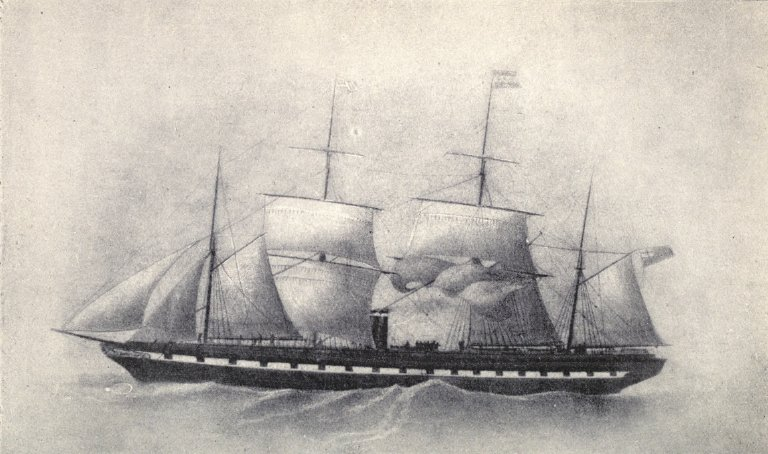 SS Great Britain in 1853, showing her four-masted sail plan following her refit from five masts. She was later refitted again, to a traditional three-masted, square-rigged pattern.